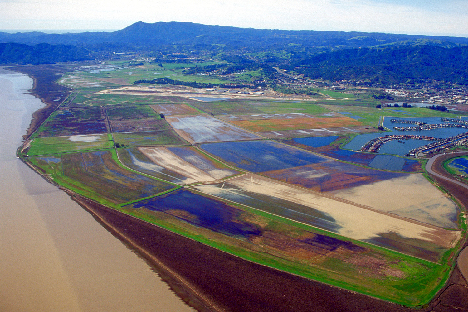 Aerial view to the south-southwest of the former Hamilton Air Force Base in Novato, Marin County, California. The base was closed as an U.S. Air Force base in 1974 and sold by the U.S. Government in 1988. The old runway is still visible in the distance. Part of the base is in the Whiteside marsh wetlands restoration, in the Hamilton Wetland Restoration Project of the U.S. Army Corps of Engineers. Coordinates: 38°4′5.63″N 122°30′6.66″W / 38.0682306°N 122.50185°W